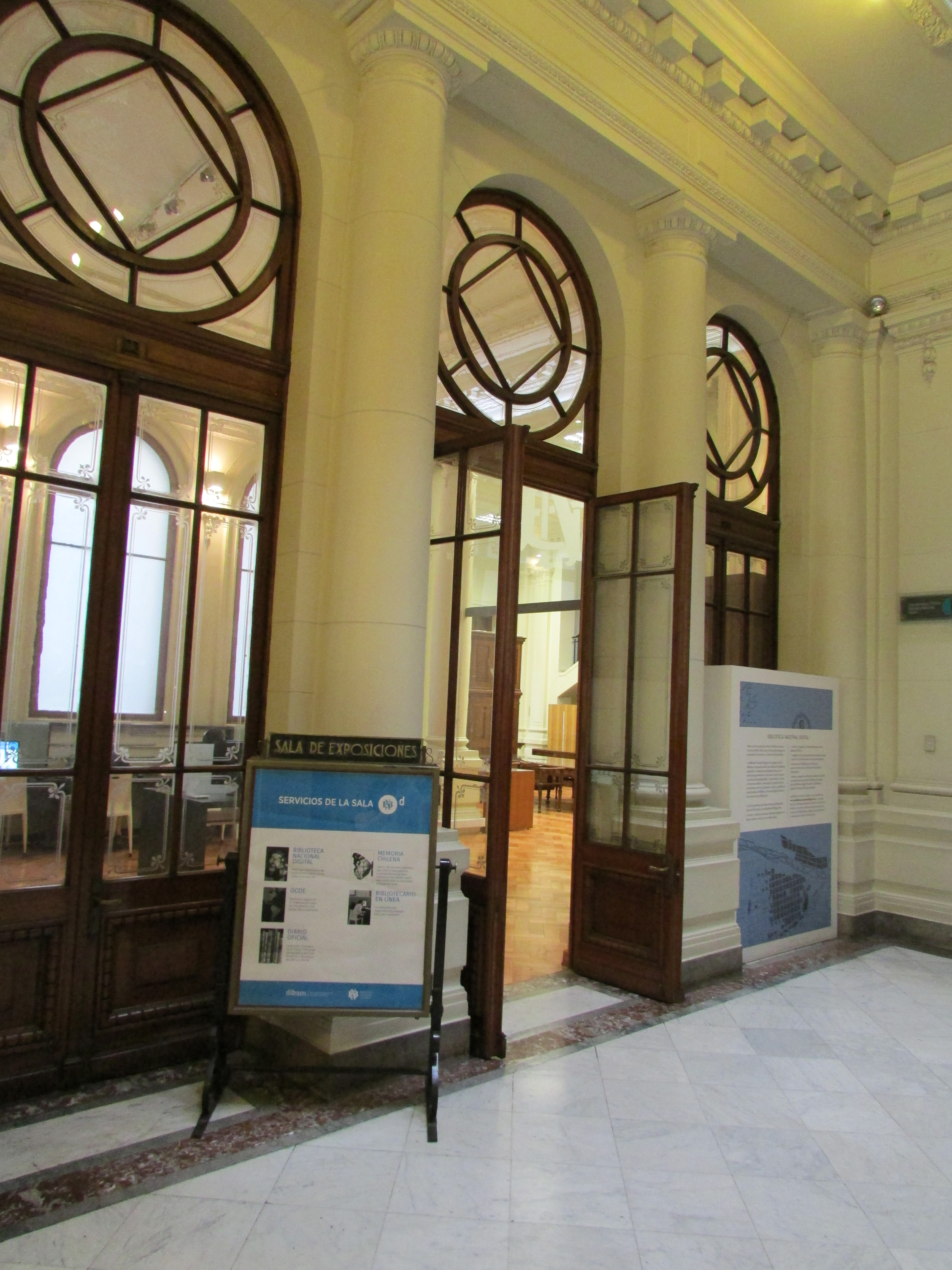 Room to access to the National Digital Library of Chile, in Hall Alameda. This is a photo of a national monument in Chile: 102